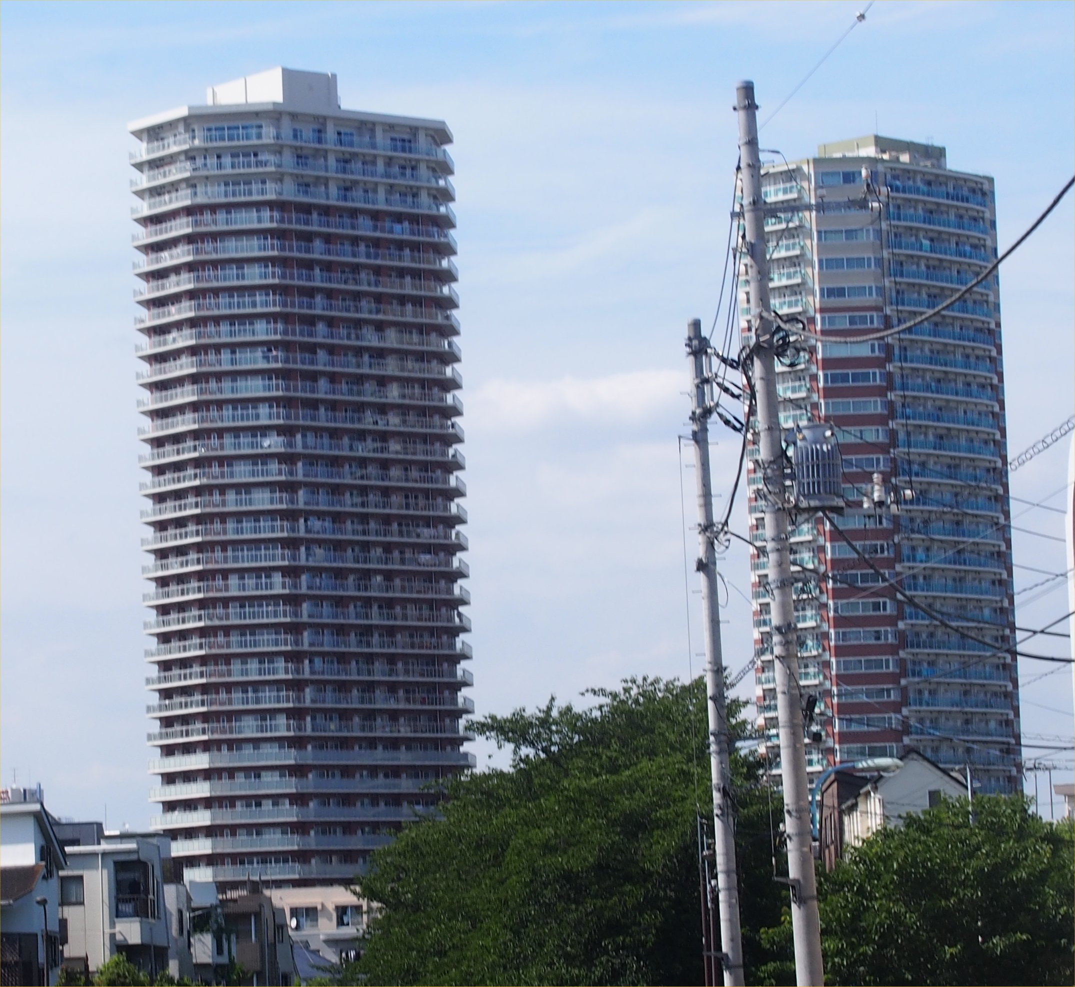 A photo an overview of Unison Square, Nakano-ku and Shinjuku-ku,Tokyo,Japan.